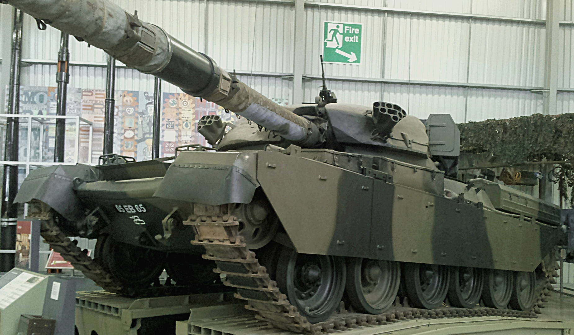 Chieftain Mark11C main battle tank at The Tank Museum, Bovington. The 'Stillbrew' armour can be clearly seen on the front of the turret.